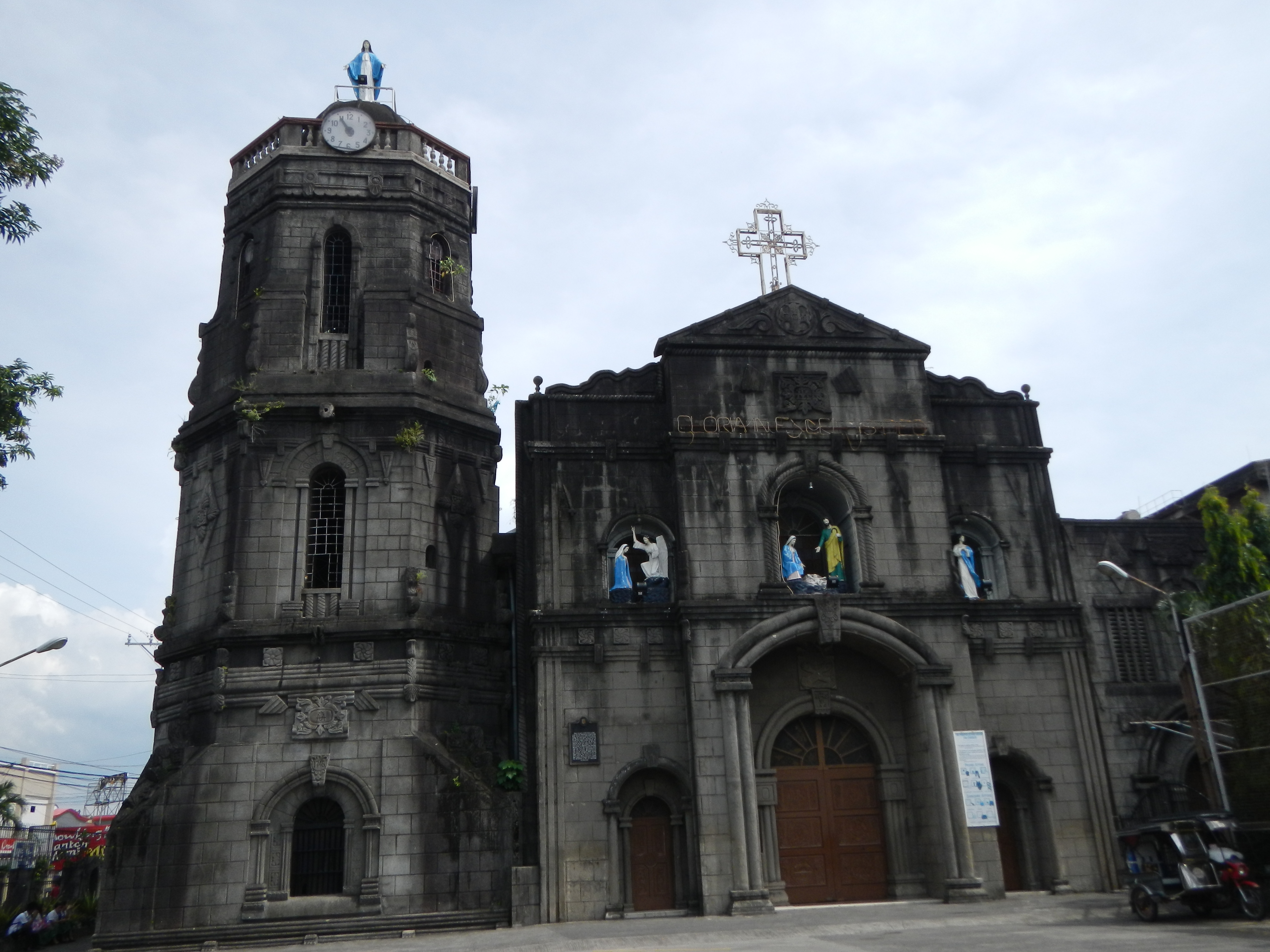 UploadWizard photos -- (General description) -- of -- the Immaculate Conception Parish Church of Santa Cruz, Laguna[1] Poblacion, 14° 17' 0.95" N 121° 24' 52.68" E [2] P. Guevarra Santa Cruz 4009 [3] belongs to the Roman Catholic Diocese of San Pablo [4] Vicariate of San Antonio de Padua [5] [6]Vicar Forane: Father Anthony S. Ricafort Feast day: December 8 Parish Priest: Father Ricardo D. de LunaParochial Vicars: Father Mariano A. Villamir Father Ramon P. CalagoAttached Priest: Father Teodulfo B. Baria Jr. - built by the Franciscan Friars in 1608 under first parish priest of Santa Cruz, Laguna, Fr. Antonio de la Llave; on January 26, 1945, during the Liberation, the church was destroyed by fire, reconstructed in 1948 with its parish priest, Rev Fr. Mariano Limjuco. Immaculate Conception Catholic College (formerly Don Bosco High School); Catholic Rectory "Kombento" beside the - Governor Felicisimo Tobias San Luis Monument, Bust, [7] The two faces of Laguna [8] Santa Cruz Municipal Hall Coordinates: 14°16'53"N 121°24'52"E -- Santa Cruz, Laguna[9] (a first class urban municipality in the province of Laguna,[10]Philippines, the capital town of the province of Laguna, latest census, it has a population of 101,914 people in 19,627 households, situated on the banks of the Santa Cruz River[11] which flows into the eastern part of Laguna de Bay[12] politically subdivided into 26 barangays.Website [13] Coordinates: 14°15'8"N 121°24'15"E)